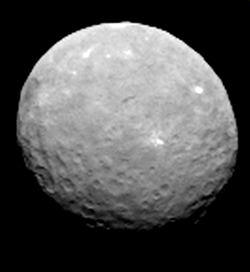 Ceres photographed by Dawn from about 80 000 km.